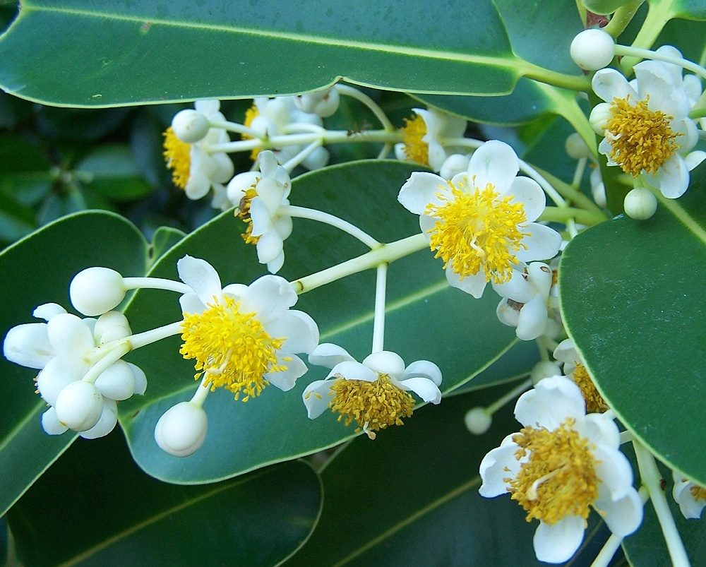 Flowers of Calophyllum inophyllum (Clusiaceae), photographed at Lugger Bay, Edmund Kennedy Walking Track, Mission Beach, North Queensland, Australia